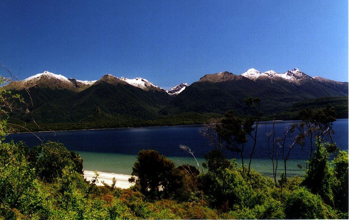 Taken at the North End of the Frasers Beach Terrace Lake Manapouri also titled "Sharp Lake"